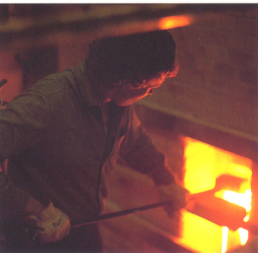 Calcine kiln. Emaux de Briare.